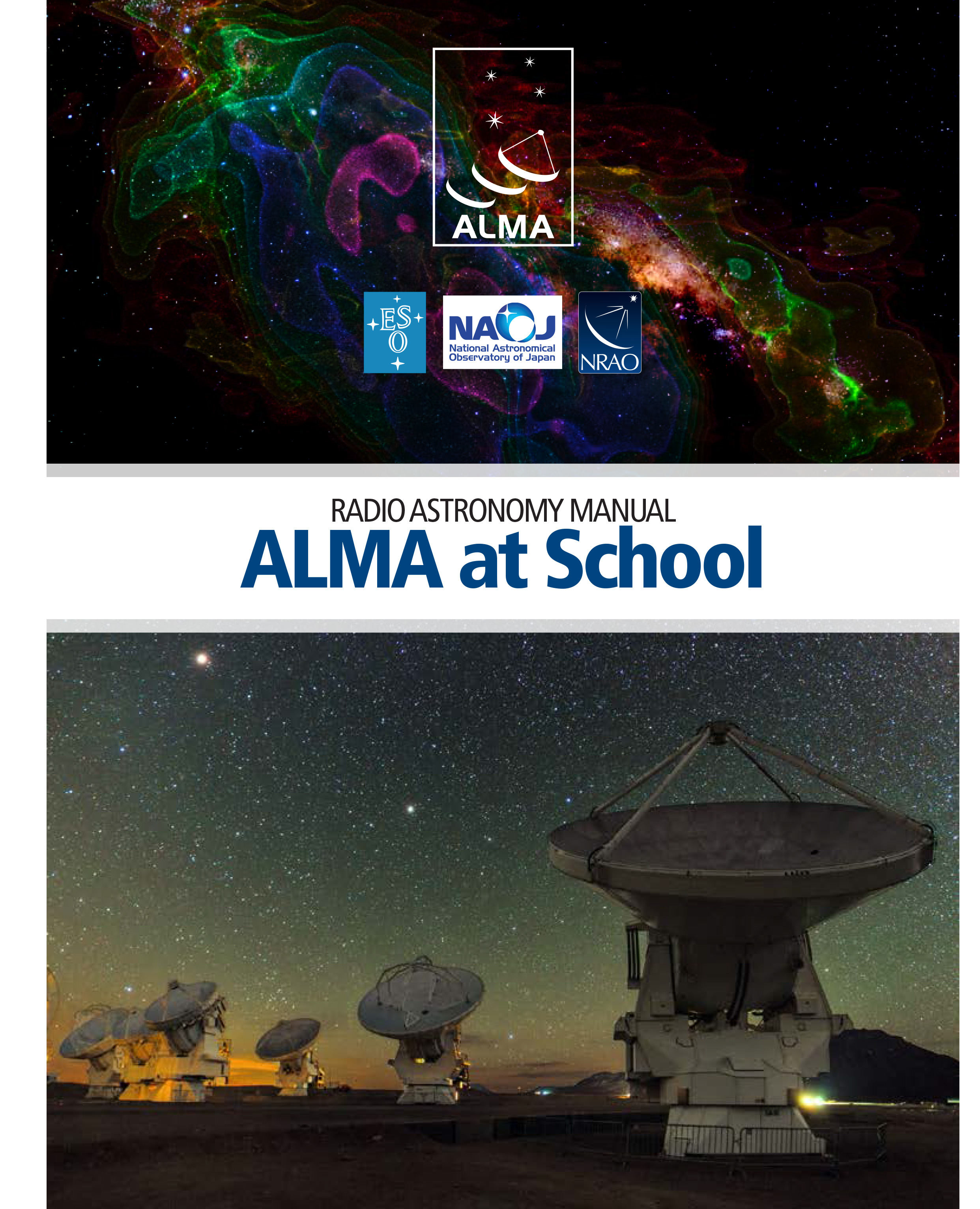 The PDF file of this material is available for download on